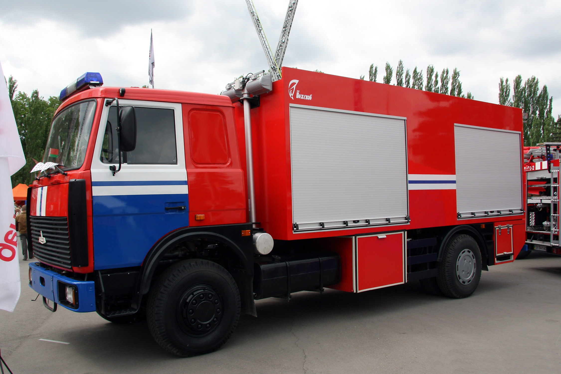 Fire truck ATs 5,0-50-4 on MAZ-5336A3-chassis at the Integrated Safety and Security Exhibition 2009.